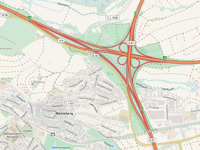 The picture is a map tile taken from map database. In the pictute there is a layout of a intersection near Weinsberg in Germany.